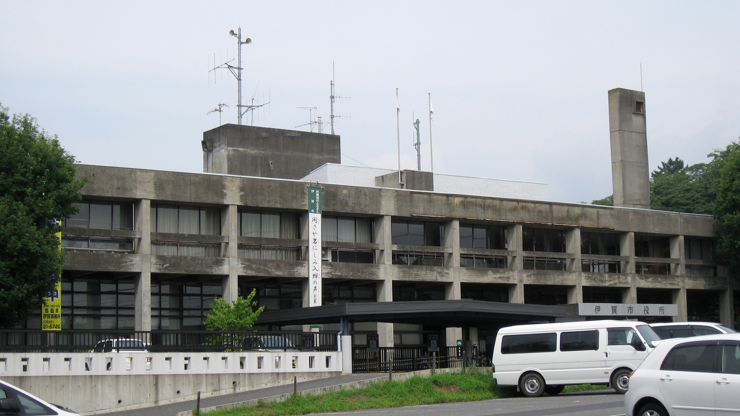 Iga cityhall. Place:Ueno-Marunouchi Iga-city Mie Pref., Japan